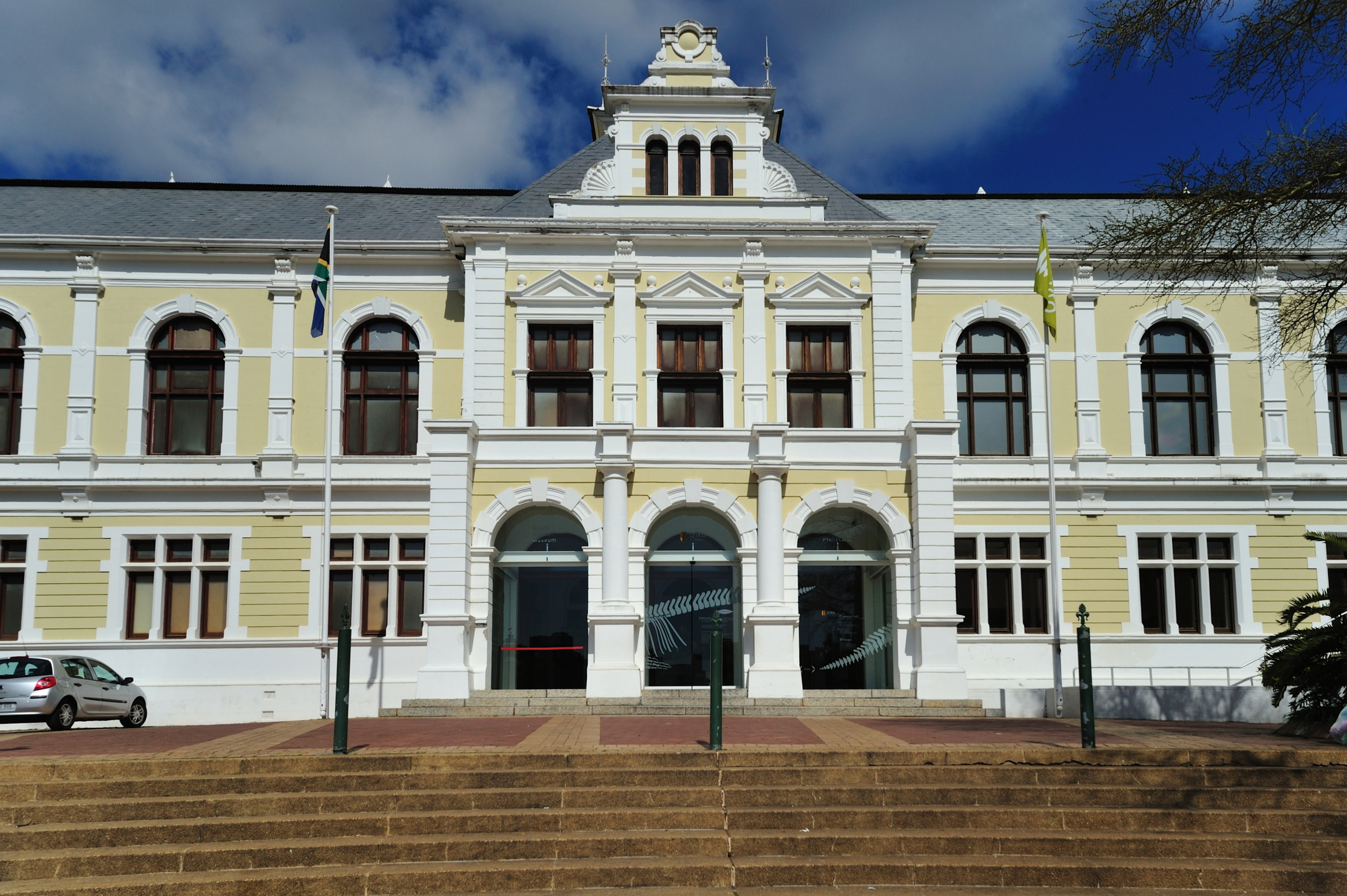 Iziko South African Museum in the Company Gardens This media shows a South African Protected Site with SAHRA file reference 9/2/018/0149.